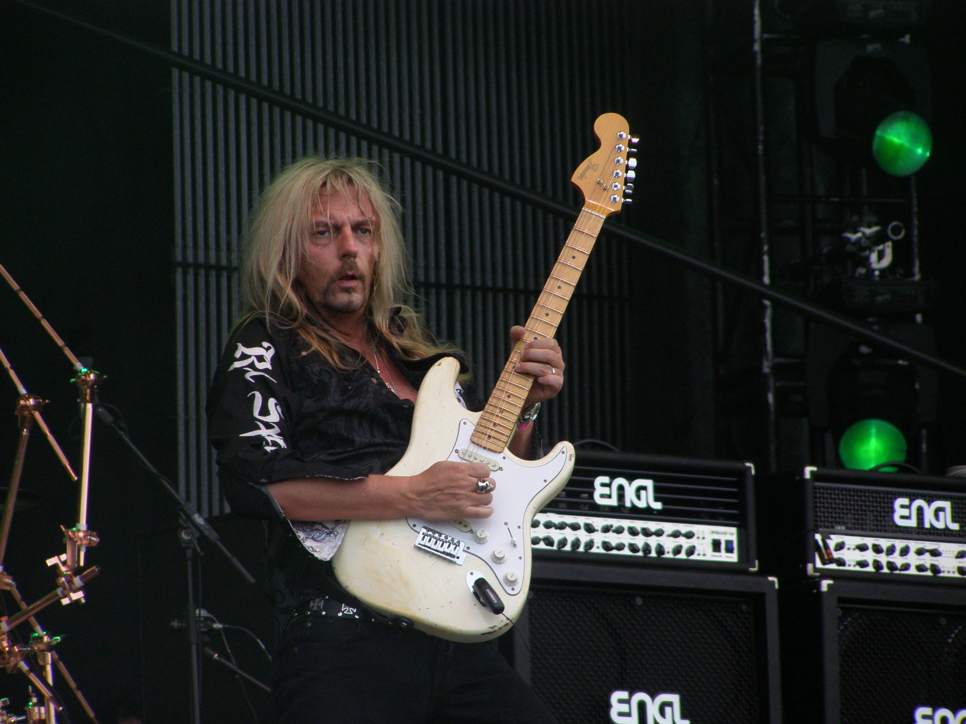 Axel Rudi Pell playing in Wacken Open Air 2009